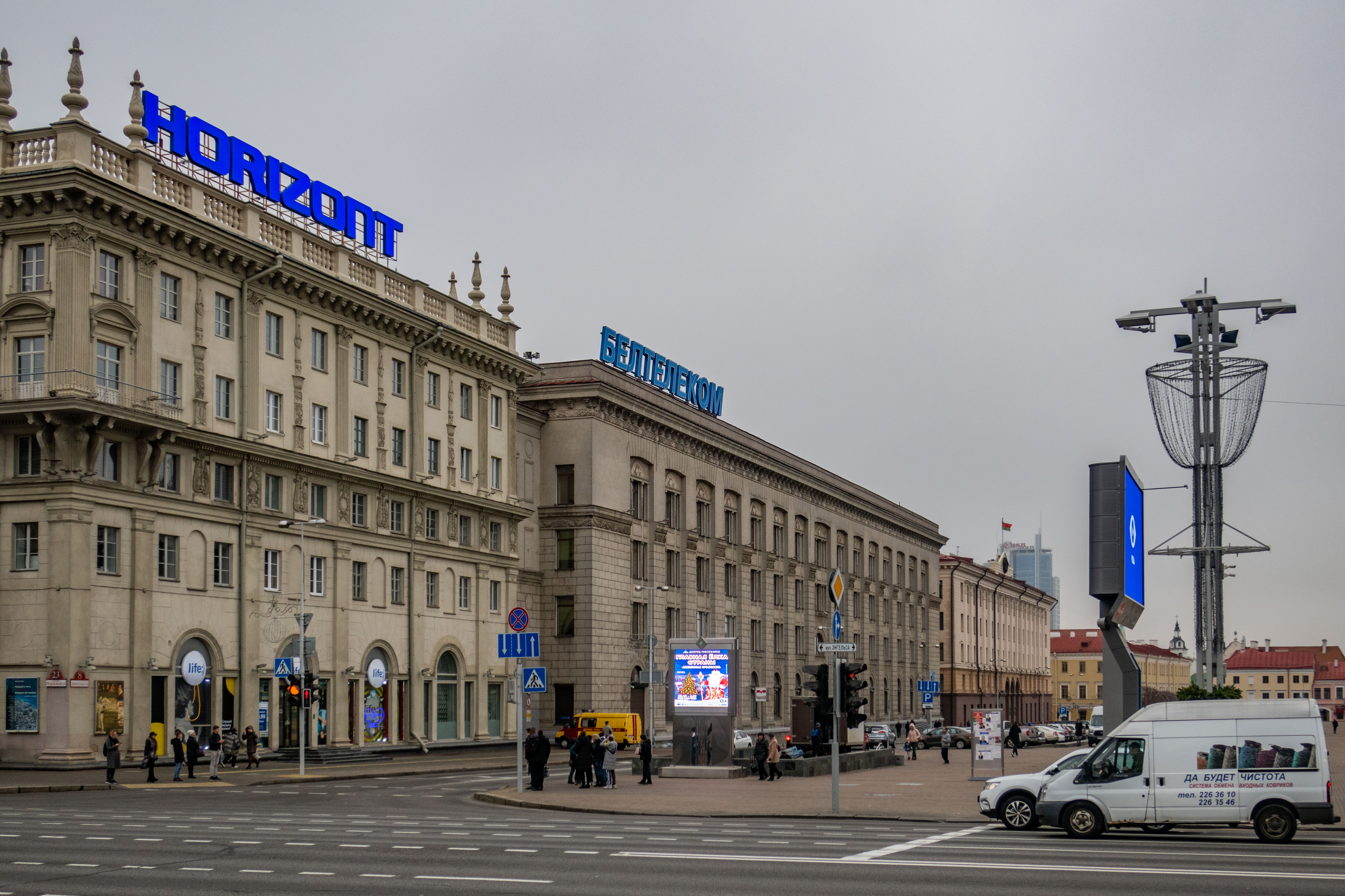 Enhieĺsa street. Minsk, Belarus